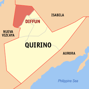 Map of Quirino showing the location of Diffun